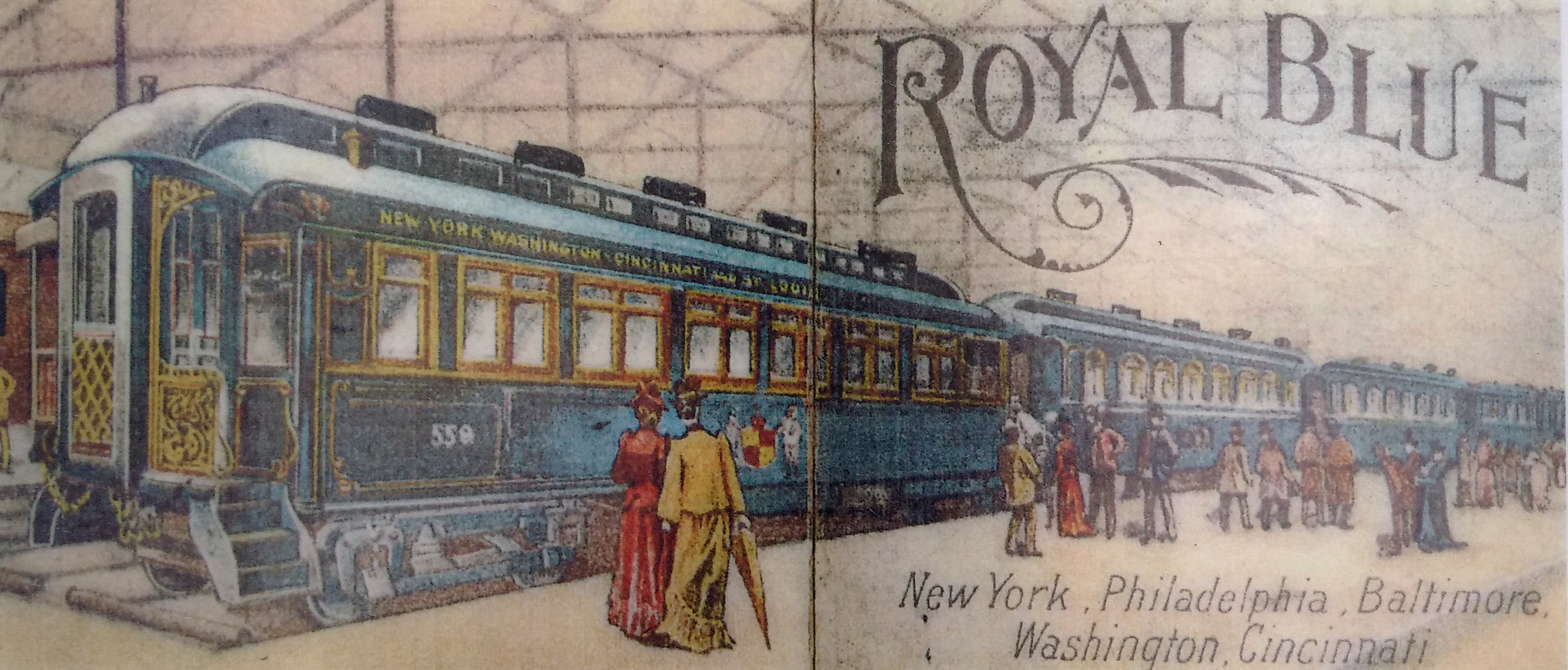 B&O Railroad advertisement for its Royal Blue Line deluxe train service between New York-Philadelphia-Baltimore-Washington